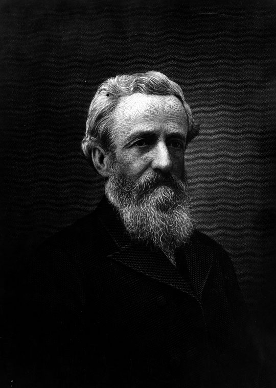 Portrait of Ozro. W. Childs (1824-1890), a successful merchant, land owner and horticulturist. Historical Notes: He built the first L.A. Theatre. He assisted in founding the University of Southern California by donating, along with I. W. Hellman and J. G. Downey, 308 lots, which was and still is the site of the University.